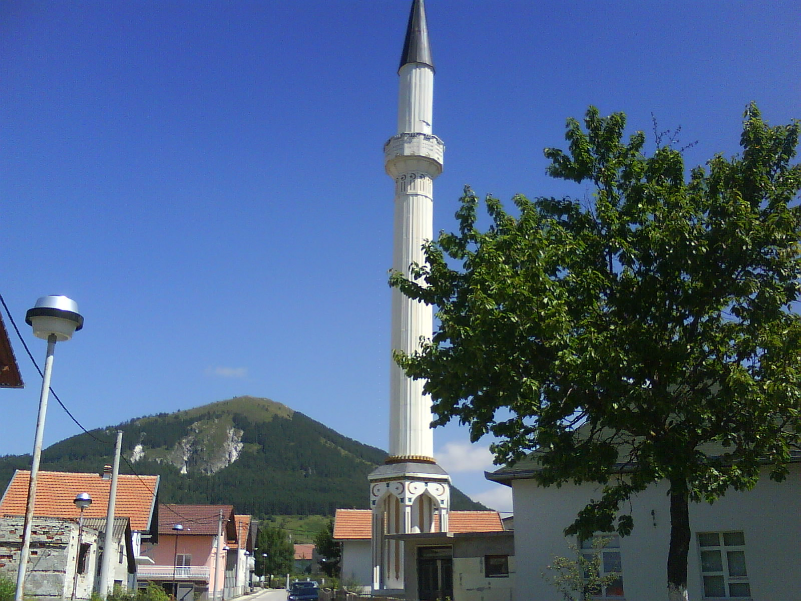 Mosque in Kupres